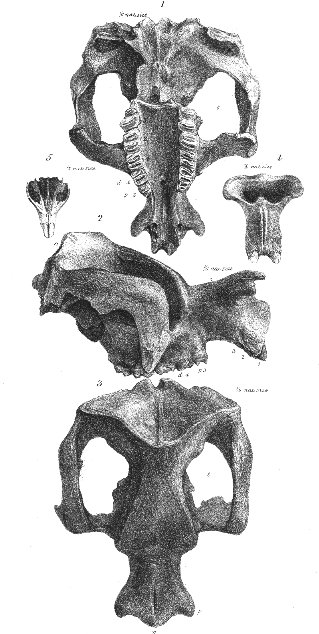 PLATE. VII. Fig. 1. Under view of the Cranium of Nototherium Mitchelli, Owen (Zygomaturus trilobus, Macleay) : one-sixth natural size. Fig. 2. Side view of the same : one-sixth natural size. Fig. 3. Upper view of the same : one-sixth natural size. Fig. 4. Terminal view of the nasal region of the cranium : one-sixth natural size. Fig. 5. Similar view of the cranium of the Koala (Phascolarctos); one-half natural size. [These figures, excepting fig. 5, are taken from the casts of the skull presented to the Trustees of the British Museum, and received since the reading of the foregoing paper. The original specimen is in the Museum of Sydney, N. S. Wales.]